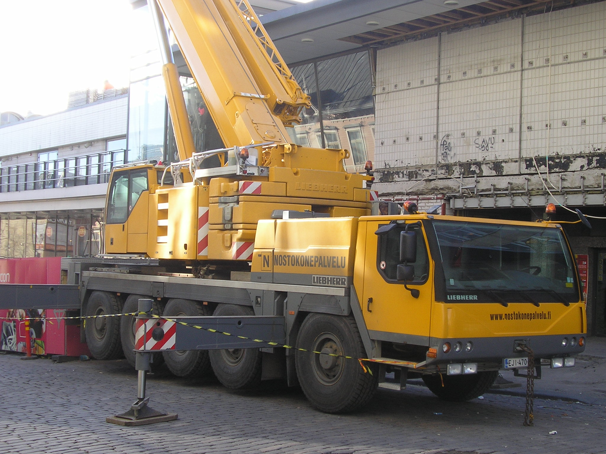 Liebherr crane truck in Jyväskylä, Finland